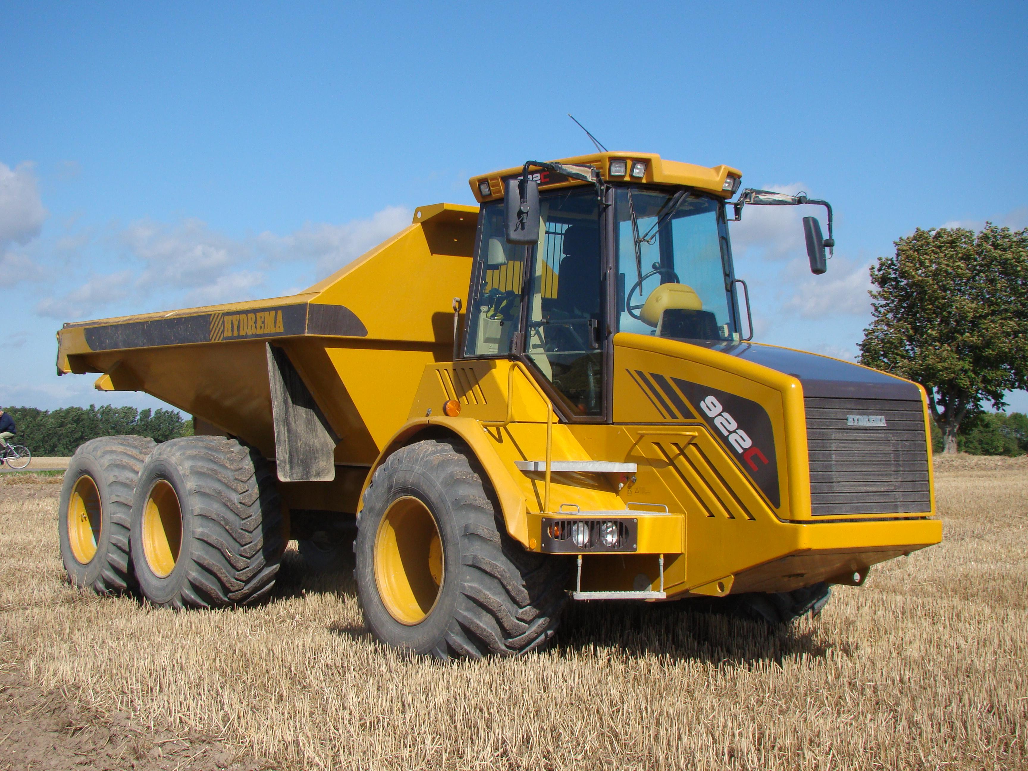 A Hydrema 922C rented from a local gravel pit